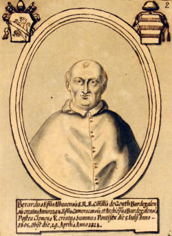 Portrait of cardinal Bérard de Gouth, brother of pope Clement V